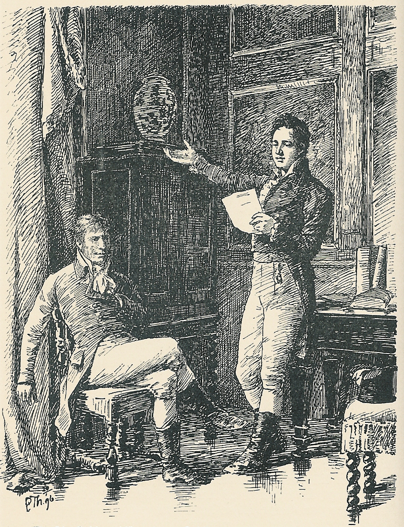 Oehlenschläger læser Guldhornene højt for Heinrich Steffens. Tegning fra 1896 af Carl Thomsen.